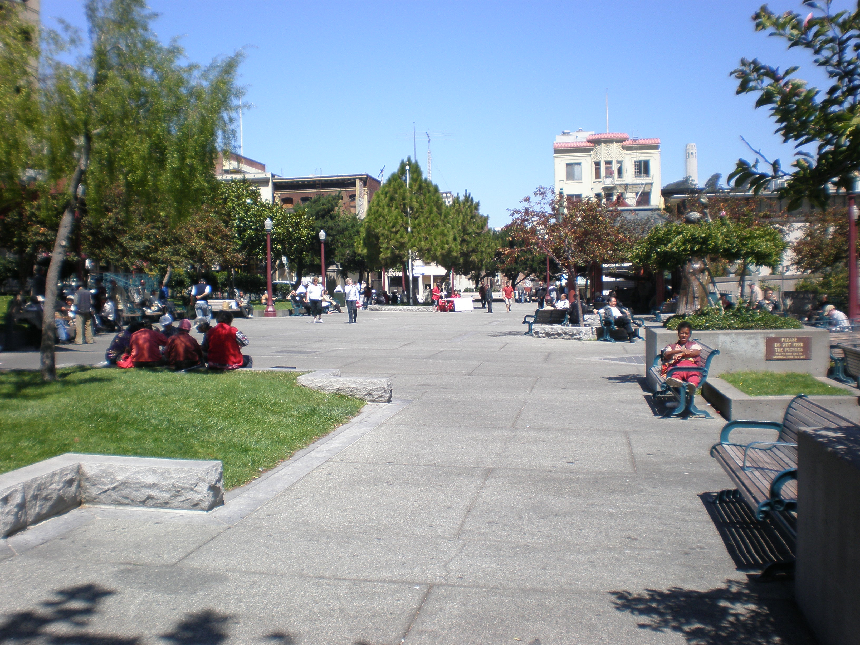 A section of Portsmouth Square in San Francisco.